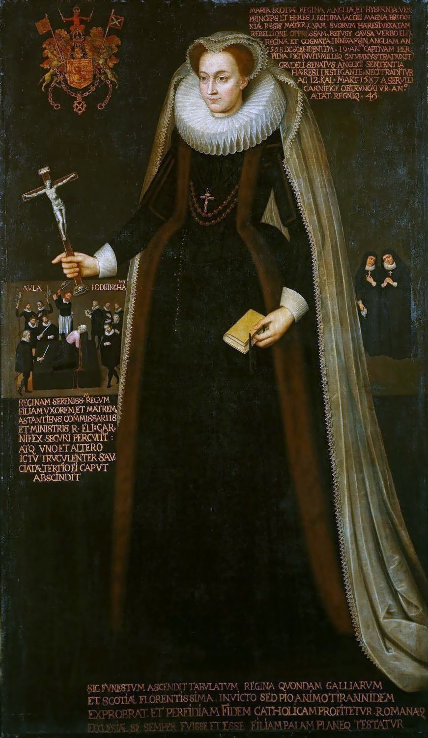 A posthumously portrait of Mary, Queen of Scots (1542-1587) in captivity.